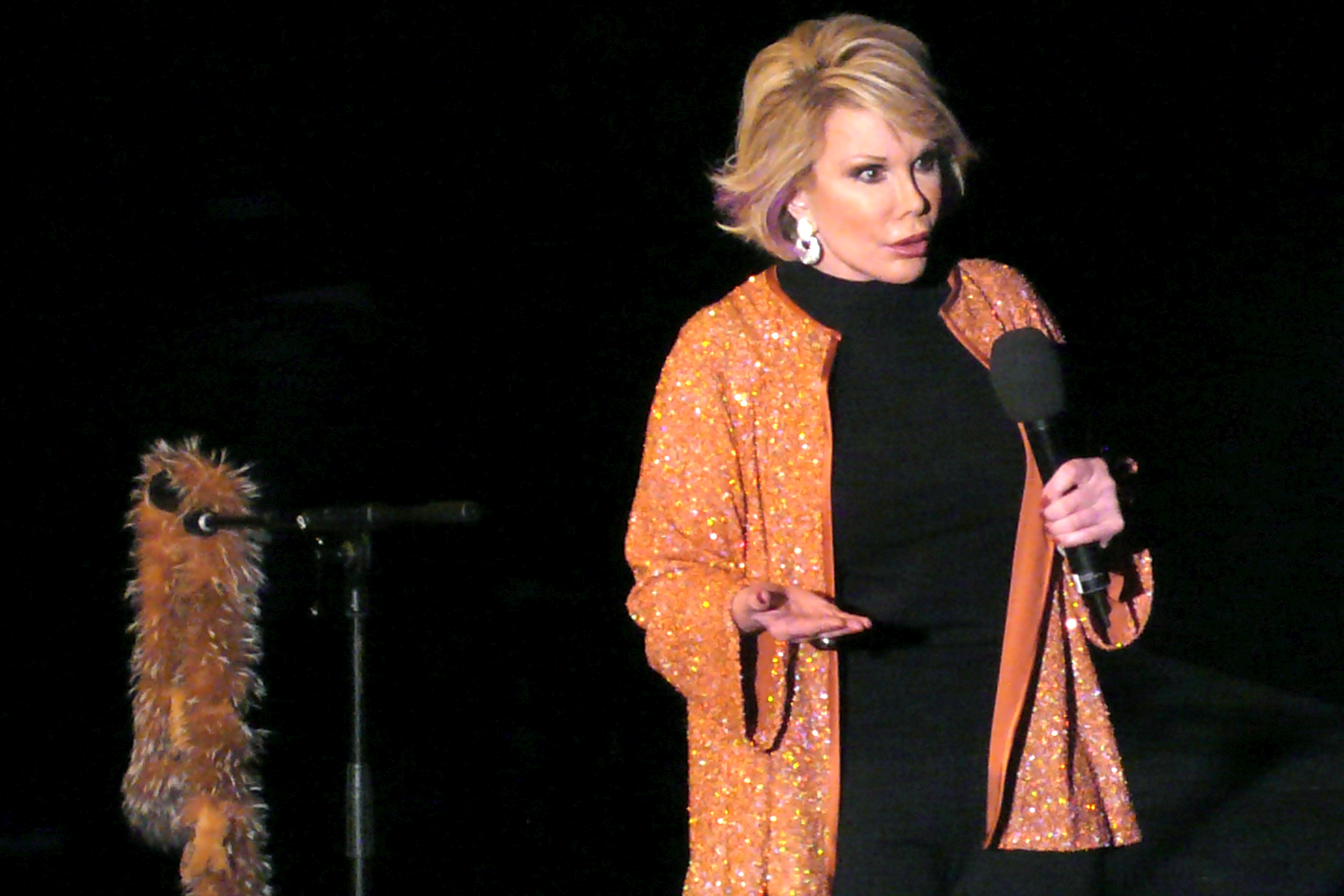 Joan Rivers opens the E4 Udderbelly Southbank festival programme.